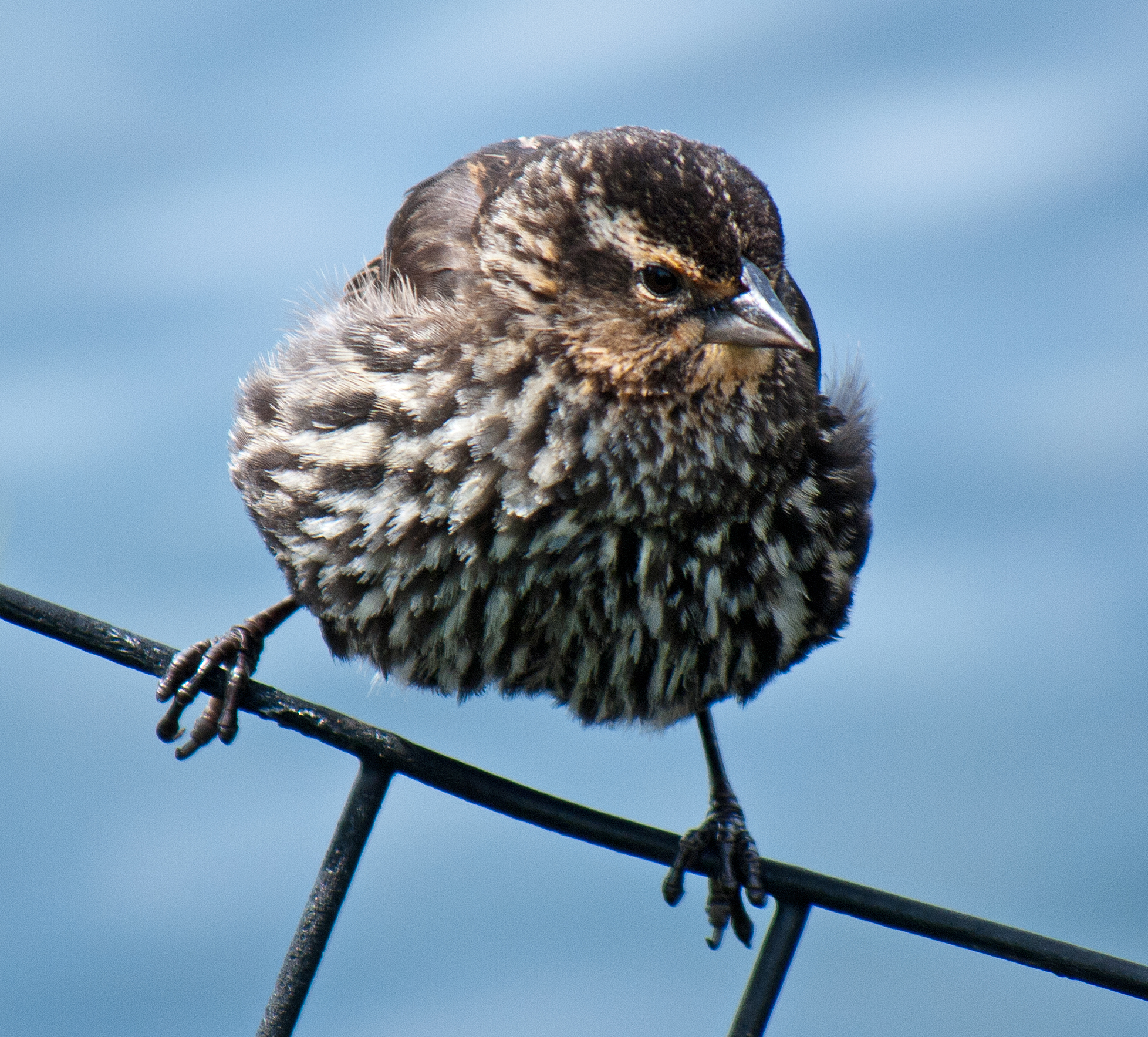 A female Red-winged Blackbird in Chicago, Illinois, USA.